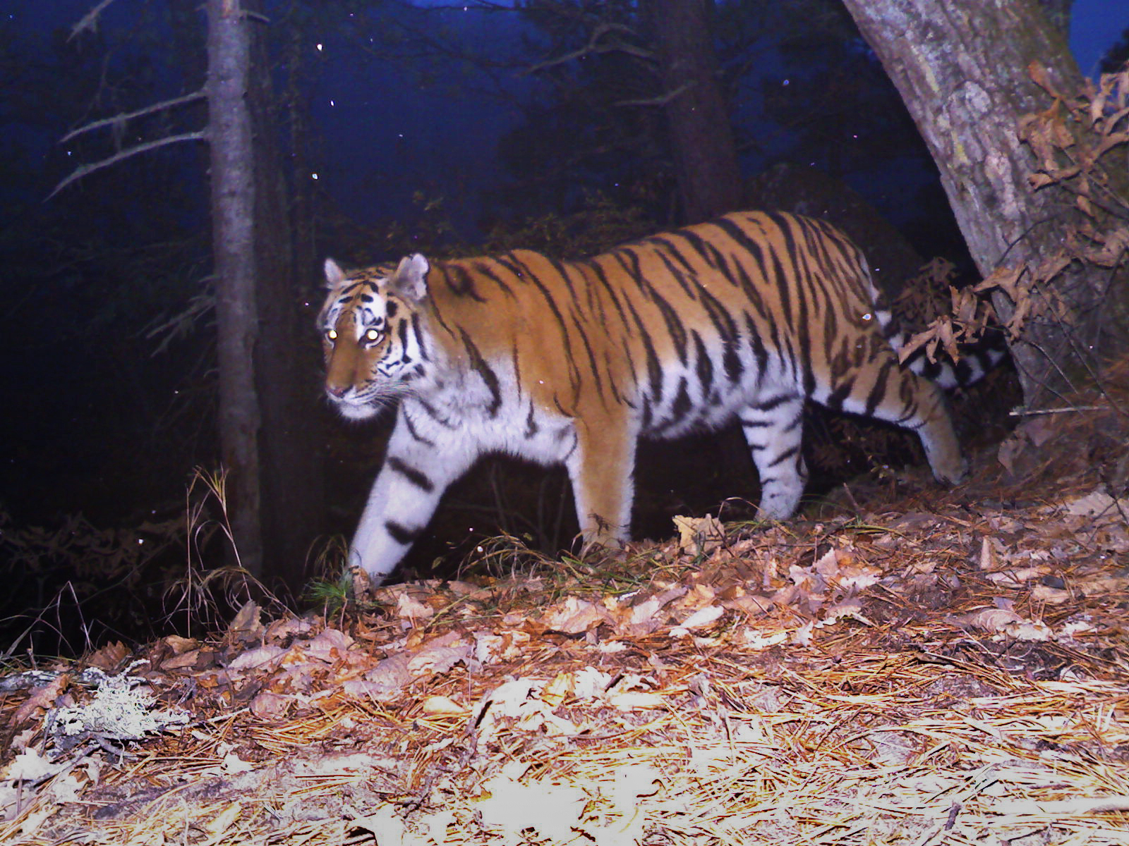 Tigress Anna Savelevna.